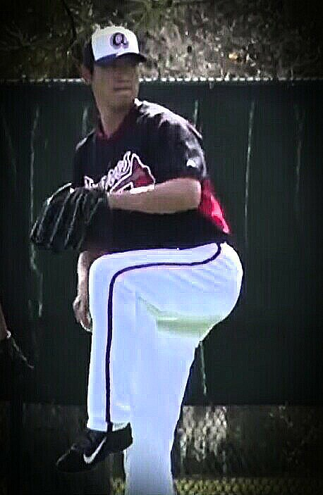 Chien-Ming Wang Braves 2015 Spring Training